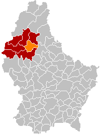 Own edit of Kanton WiltzLocatie.png